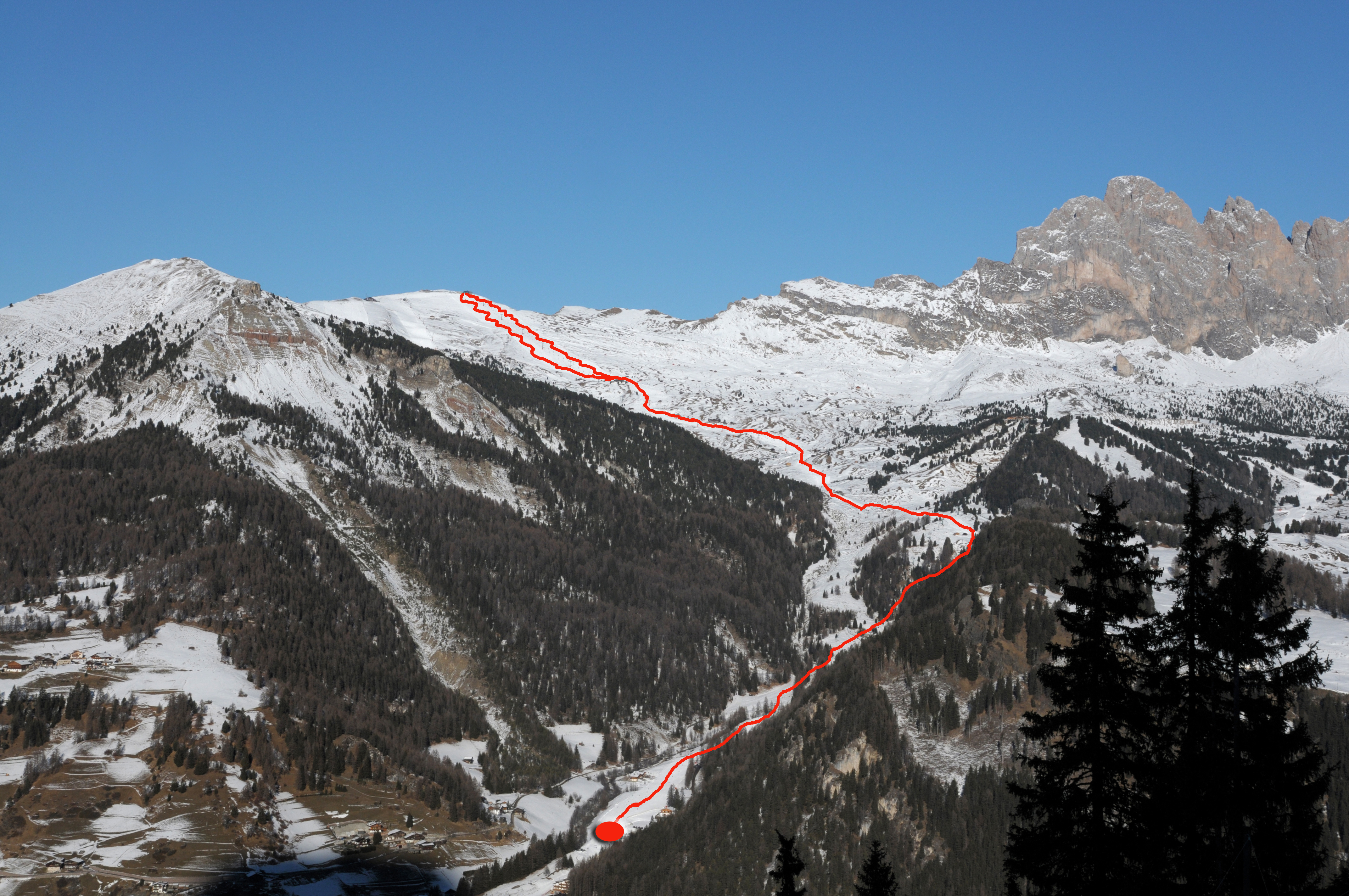 The Gardenissima Gherdëina seen from the Saslong